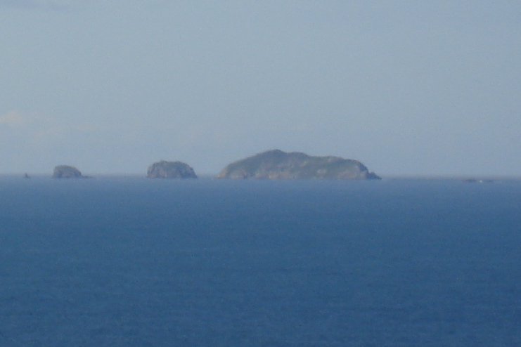 Islands of Moleques do Sul. An small archipelago in southern Brazil, in Santa Catarina state. Part of two protected areas, the 'Parque Estadual da Serra do Tabuleiro' and the protected are named as 'APA da Baleia Franca'.